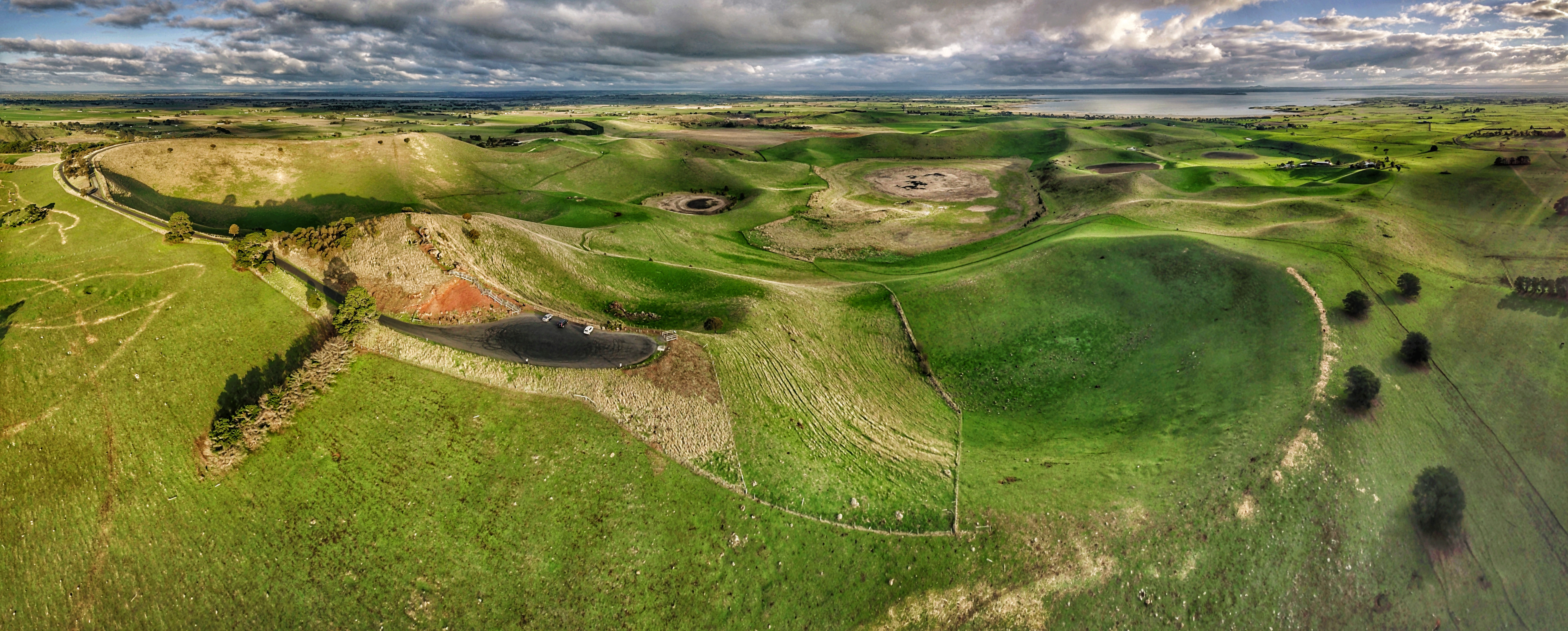 Aerial perspective of Red Rock, Alvie, VIC